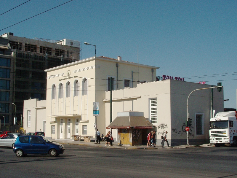 GREECE: Piraeus Railway Station of the former metre gauge Piraeus, Athens and Peloponnese Railways (SPAP), now converted to standard gauge for suburban services.